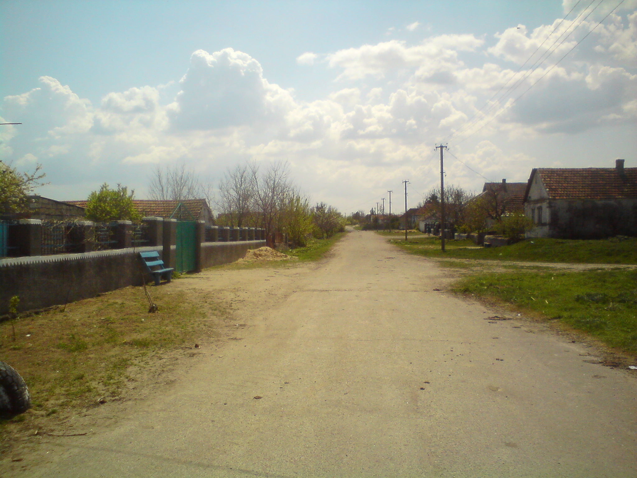 Novogrigoryvka, Mykolaiv Raion, Mykolaiv Oblast